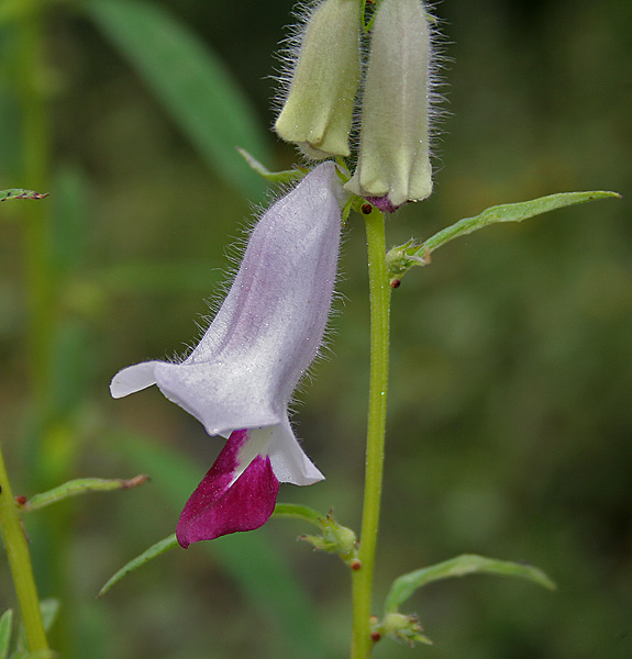 Rantil Sesamum mulayanum in Hyderabad , India.